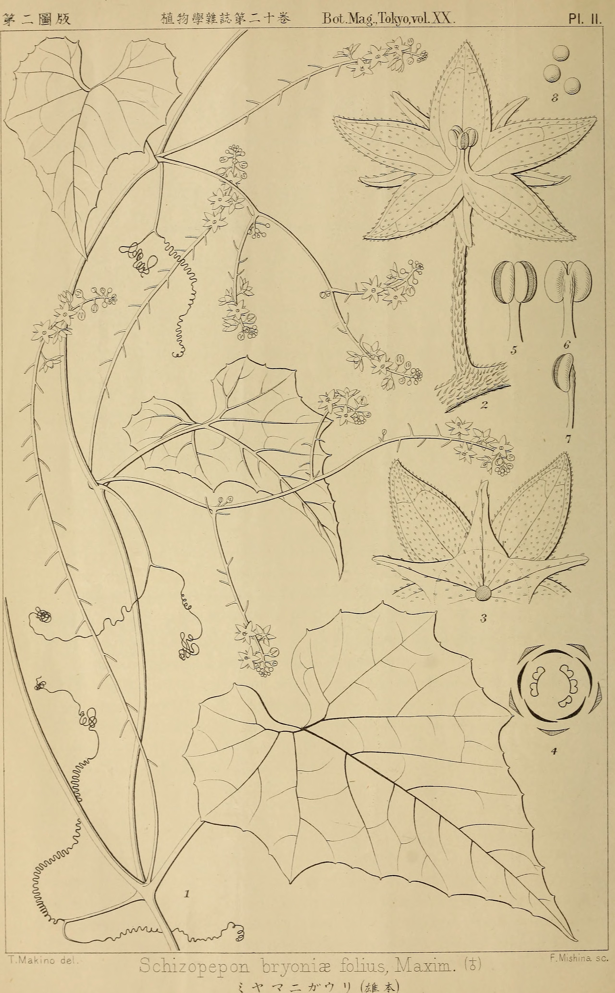 Title: The botanical magazine = Shokubutsugaku zasshi Year: 1887 (1880s) Authors: Tokyo Shokubutsu Gakkai; Nihon Shokubutsu Gakkai Subjects: Plants; Botany Publisher: Tokyo : Tokyo Botanical Society Text Appearing Before Image: ' Text Appearing After Image: '